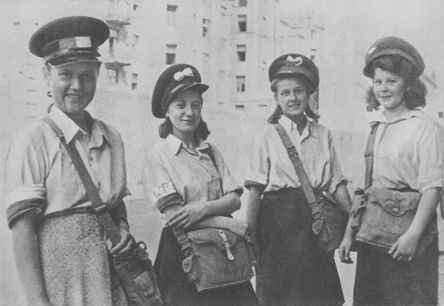 Szare Szeregi Scout Postal Service during the Warsaw Uprising